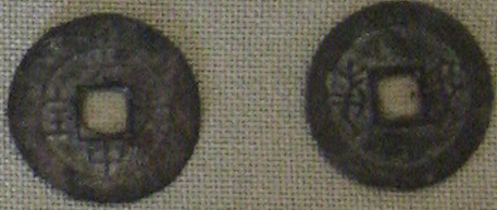 Coin issued by Quang Trung Emperor, Tay Son Dynasty, Vietnam